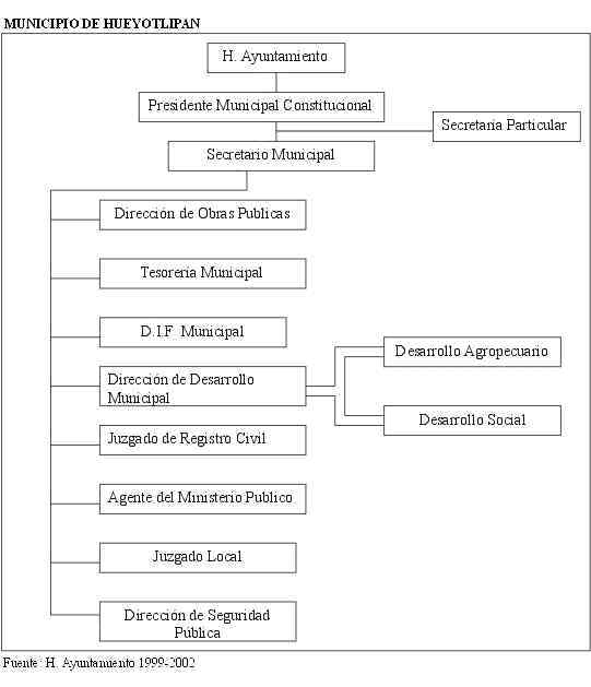 Organigrama de la Administración Pública del Municipio